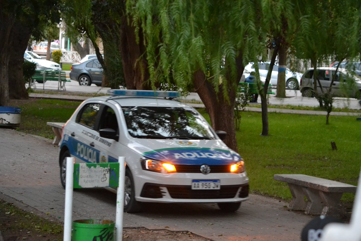 Patrullero de la policía de la provincia de Chubut